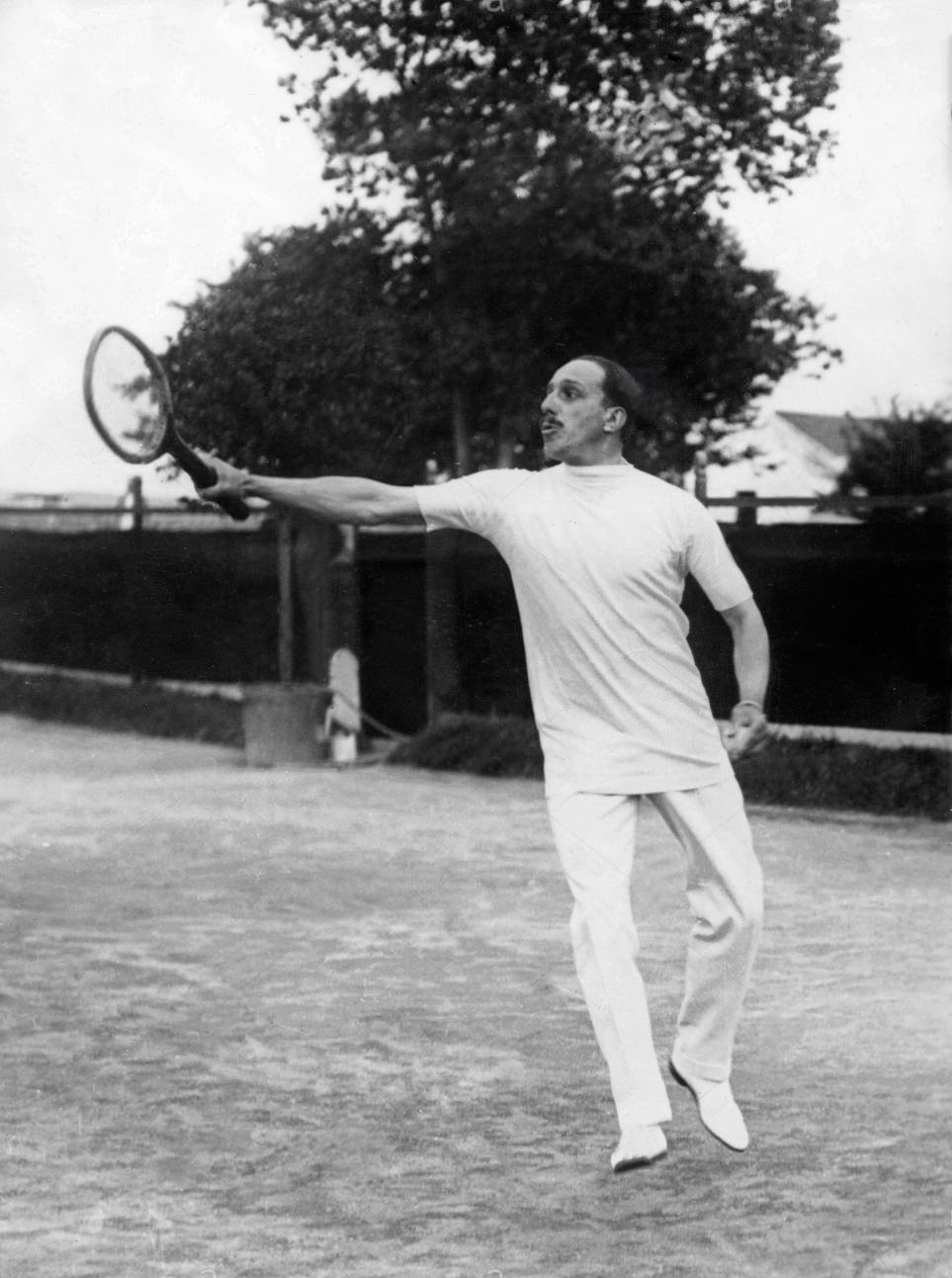 King Alfonso XIII of Spain playing a Lawn Tennis match at the Real Sociedad de Tenis de la Magdalena, Santander, Spain.